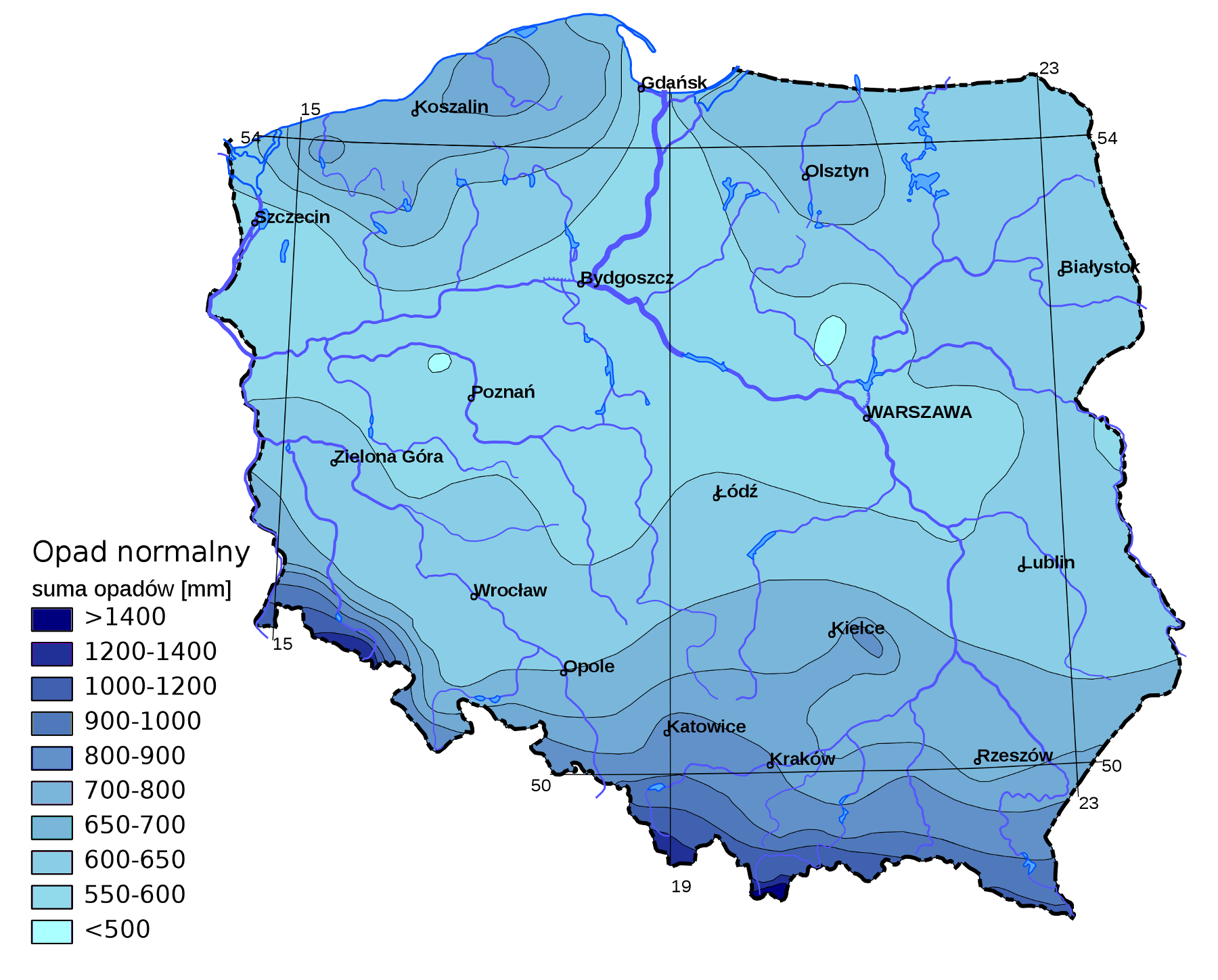 Poland - normal rainfall; created with QuantumGIS 1.4, source files